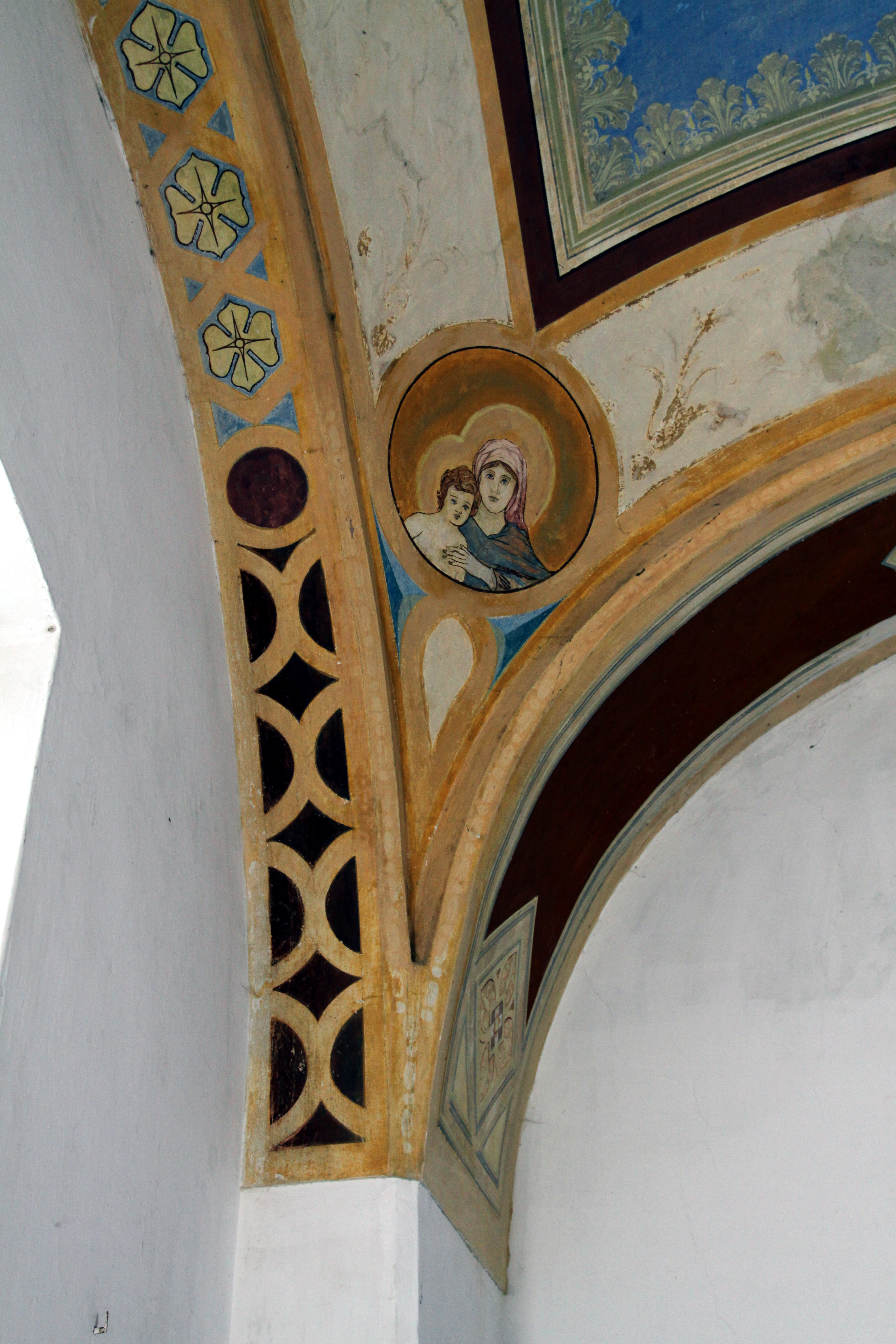 Interior of chapel of the Holy Name of the Virgin Mary in Zdiměřice, part of Jesenice town, Prague-West Dstrict, Czech Republic